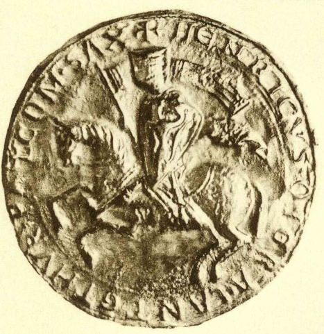 This is a scan of the historical document